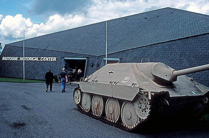 BASTOGNE HISTORICAL MUSEUM - THE UNIFORMS ON MANY OF THE FIGURES IN THIS MUSEUM ARE ORIGINAL. ALL OF THIS MATERIAL IS FROM THE COLLECTION OF ONE INDIVIDUAL